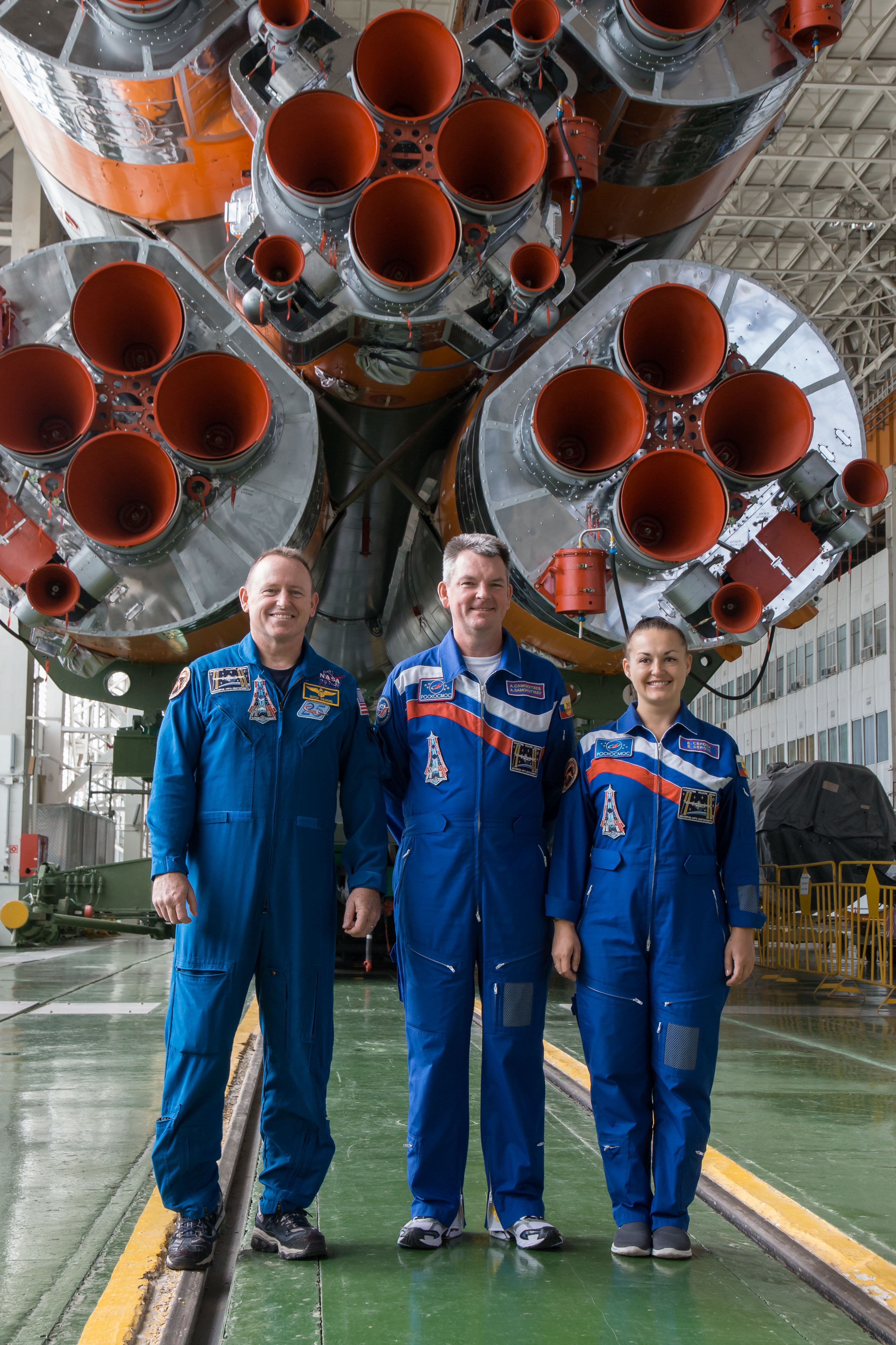 In the Baikonur Cosmodrome Integration Facility in Kazakhstan, Expedition 41 Flight Engineer Barry Wilmore of NASA (left), Soyuz Commander Alexander Samokutyaev of the Russian Federal Space Agency (Roscosmos, center) and Flight Engineer Elena Serova of Roscosmos (right) pose for pictures in front of the first stage engines of their Soyuz booster rocket Sept. 21 as they enter the final stages of prelaunch preparations. The trio will launch on Sept. 26, Kazakh time, in the Soyuz TMA-14M spacecraft to begin a 5 ½ month mission on the International Space Station. Serova will become the fourth Russian woman to fly in space and the first to live and work on the station.